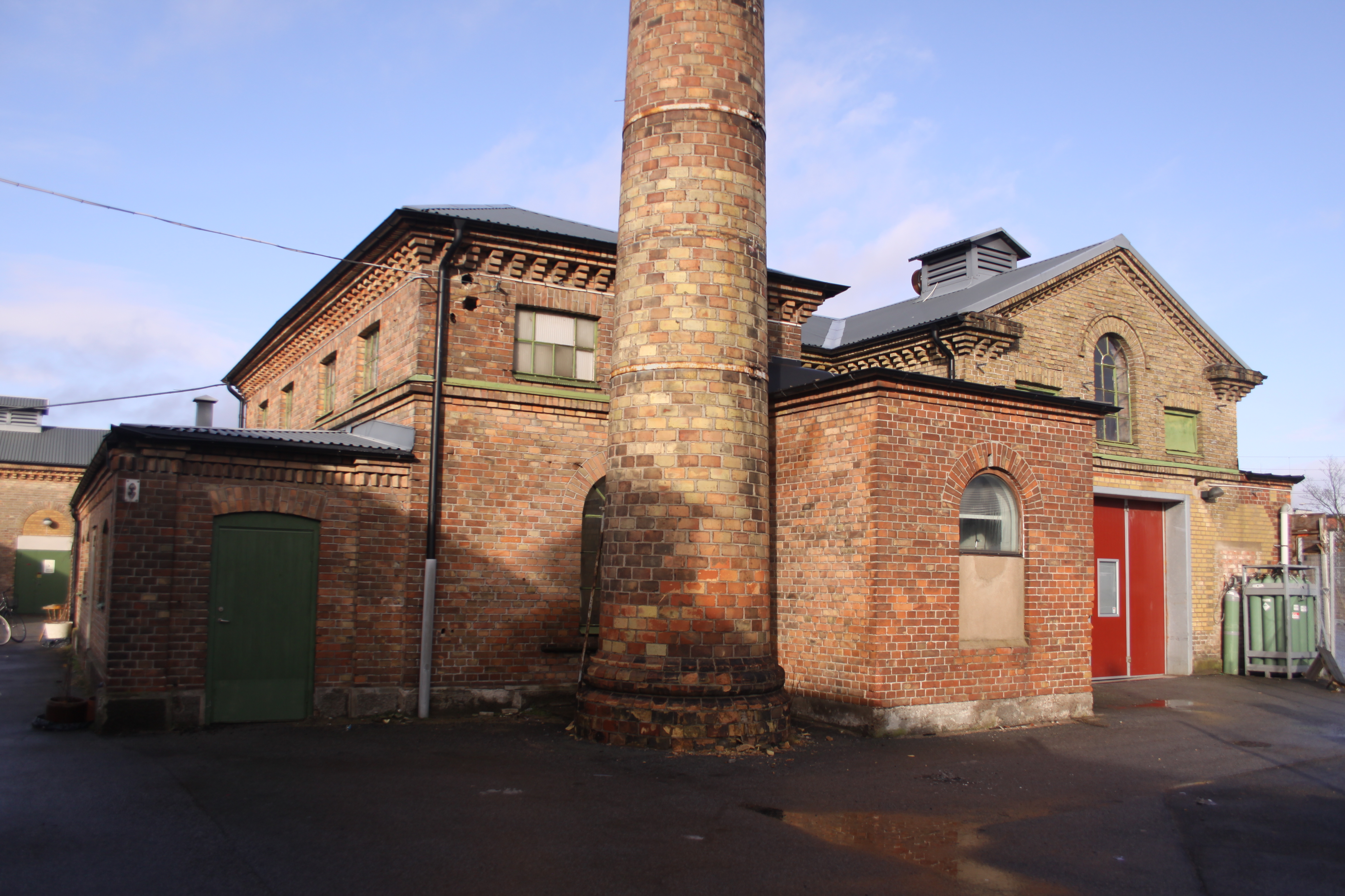 A photograph of Helsingborgs Bryggeri.